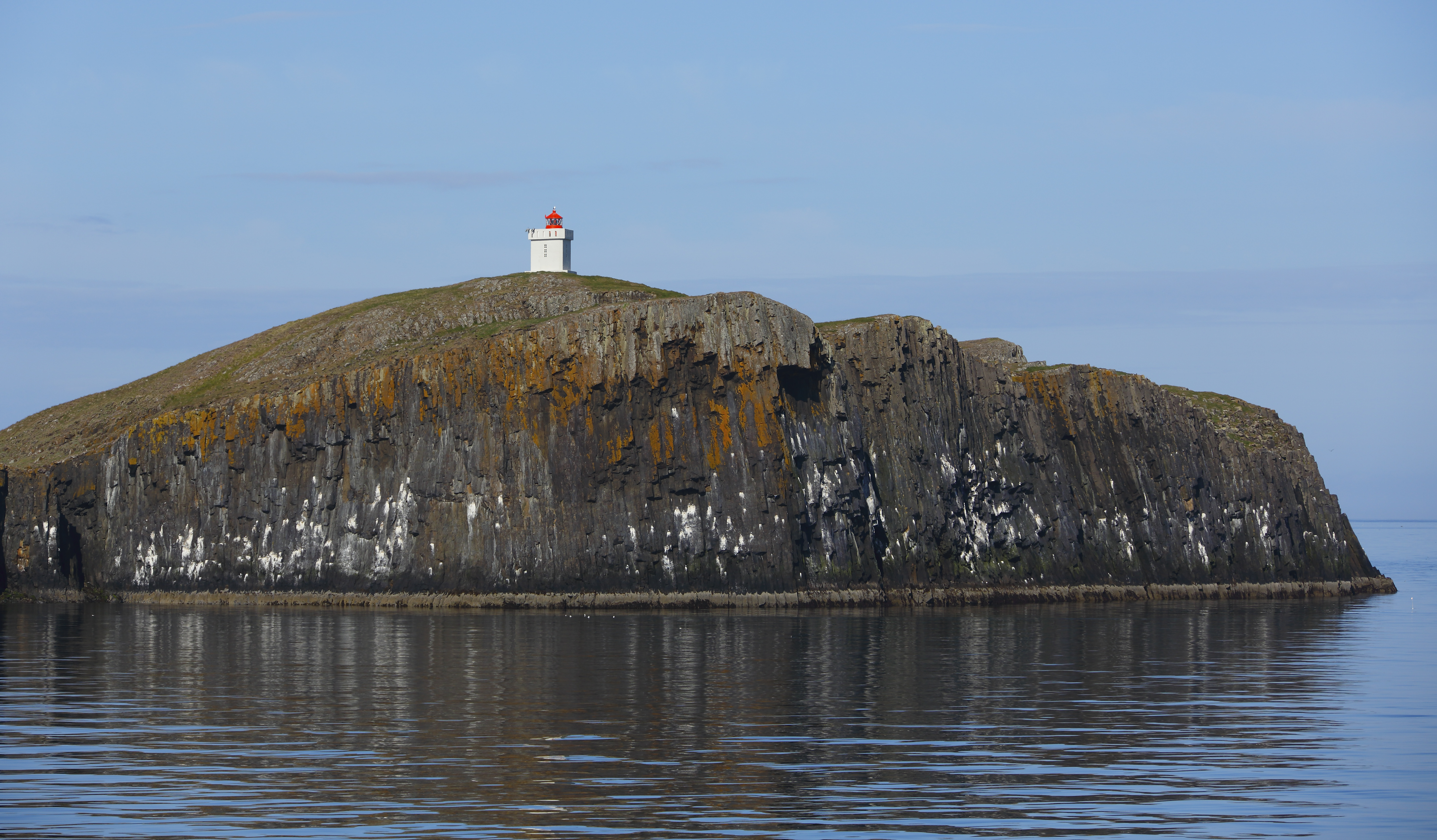 Lighthouse on Elliðaey, Breiðafjörður, Iceland. Viewpoint from southeast.